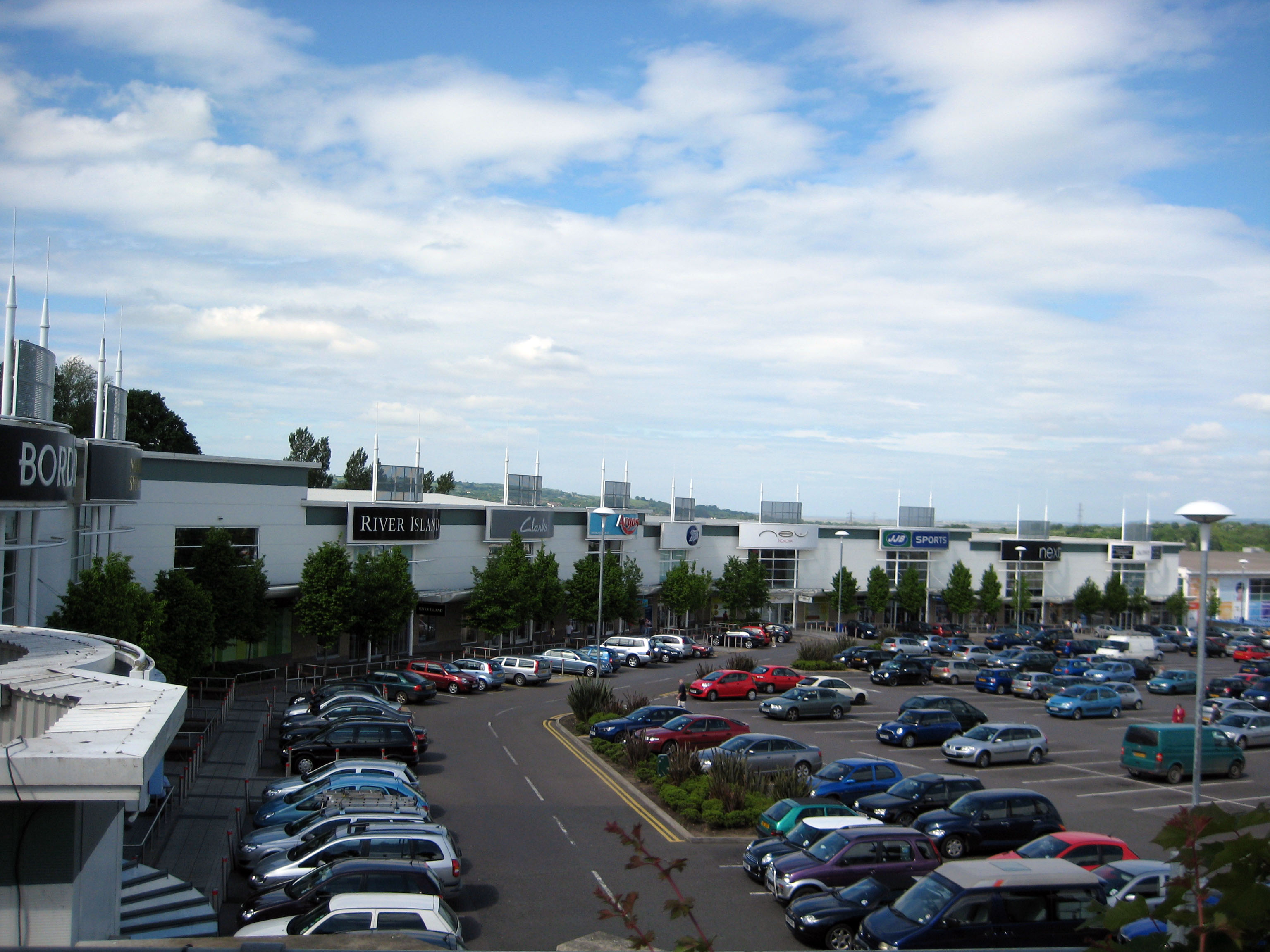 Parc Fforestfach retail park